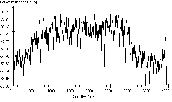 A spectrum of signal of V32bis standard modem on a telephon line.